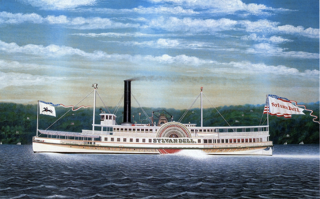 Sylvan Dell, New York steamboat.